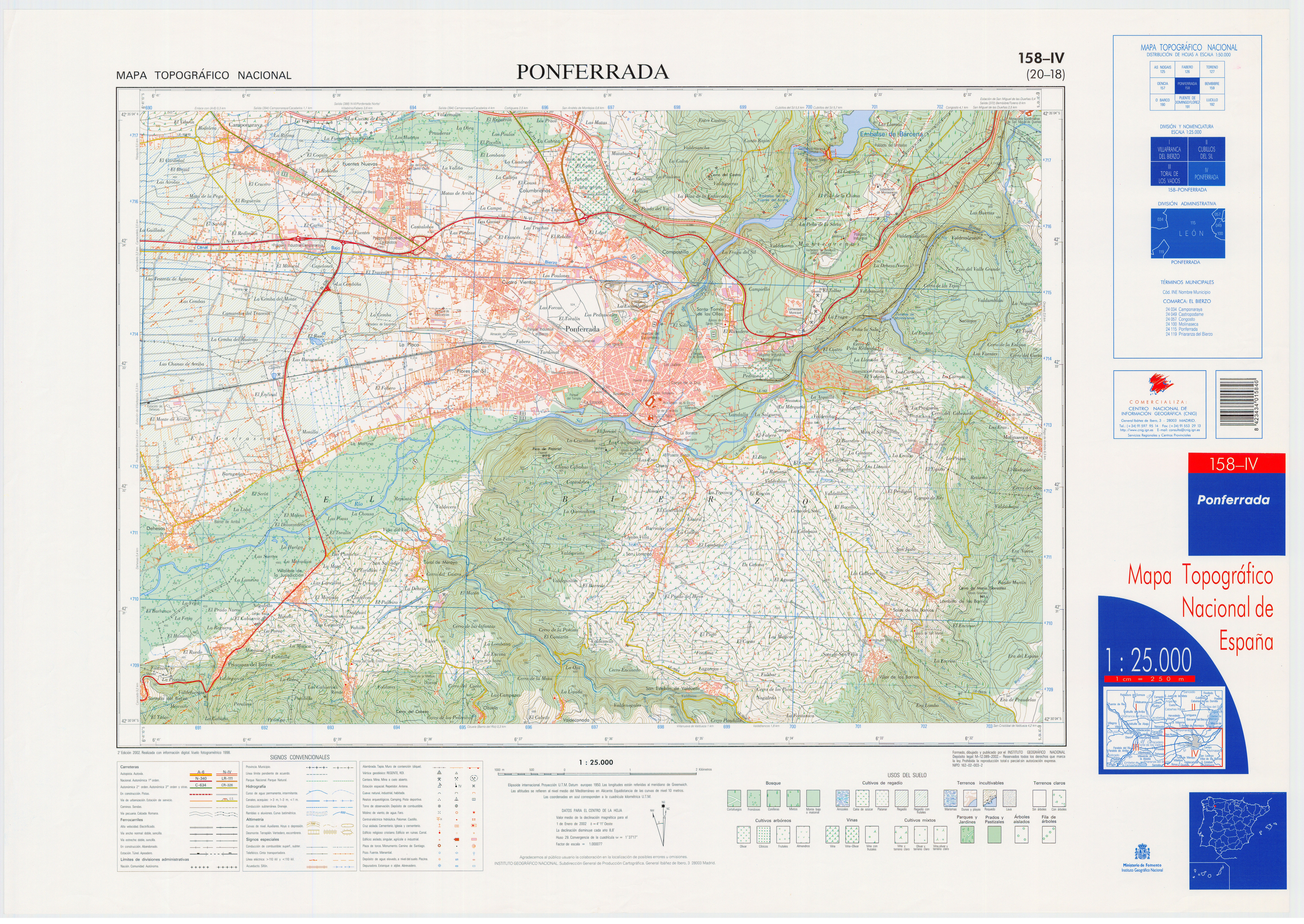 Fragment 0158c4 of the National Topographic Map of Spain in 2002 at a scale of 1:25000 printed and scanned with a resolution of 250 ppi. It shows Ponferrada.